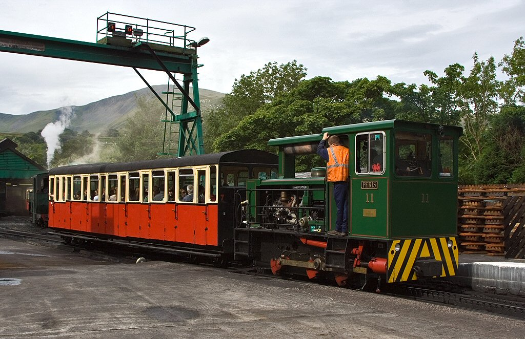 Snowdon Mountain Railway No. 11 at Llanberis.